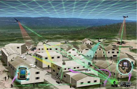 This is a concept drawing of DARPA's Heterogeneous Urban RSTA Team (HURT) program, funded under the Information Processing Technology Office.